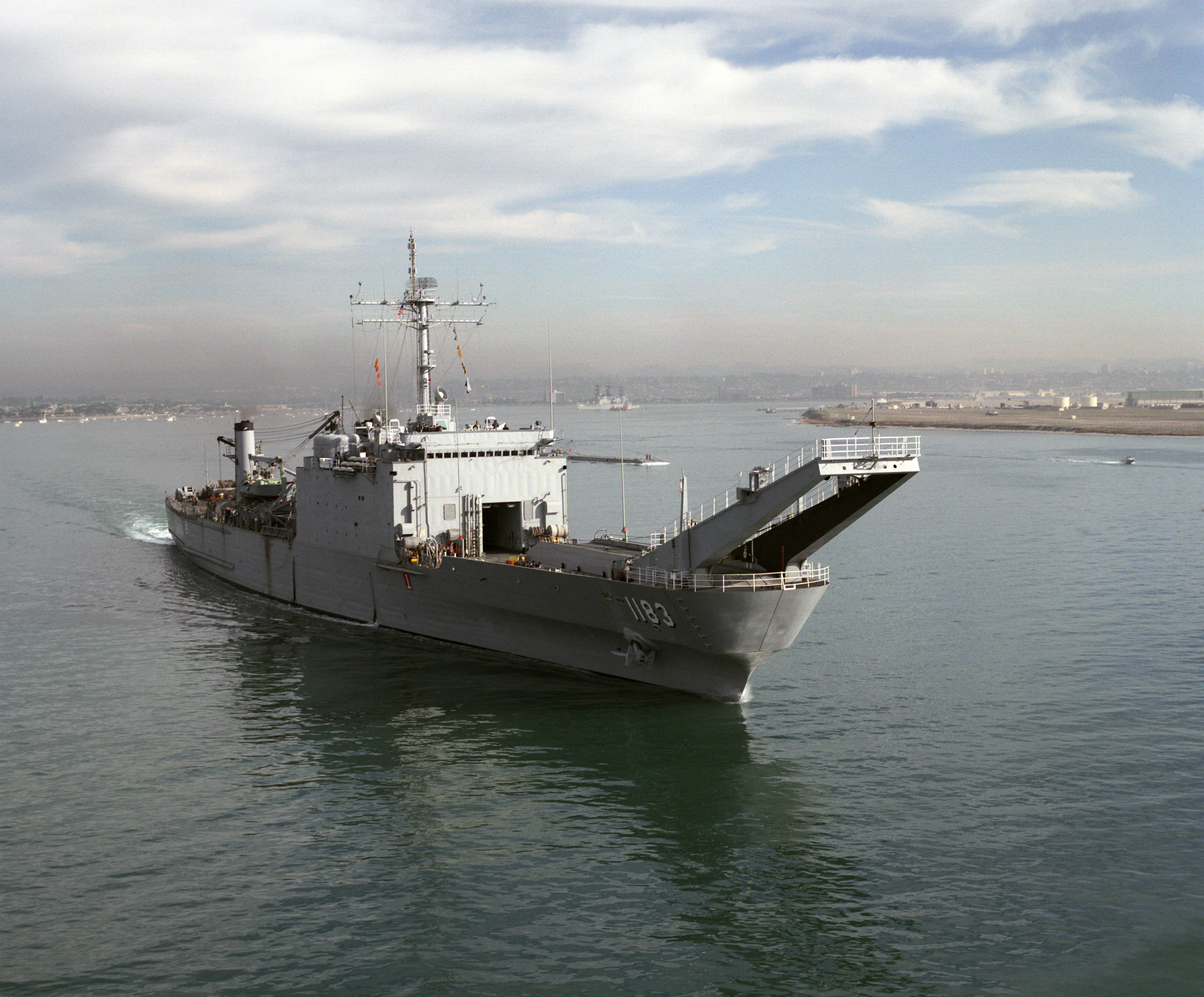 An aerial three-quarter starboard bow view of the US Navy (USN) Newport Class Tank Landing Ship USS PEORIA (LST 1183) underway entering the Pacific Ocean from San Diego Bay, with Naval Air Station North Island (NASNI) (right) and Point Loma in the background.